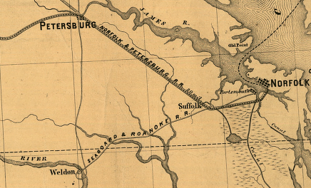 Norfolk and Petersburg Railroad Map (portion)